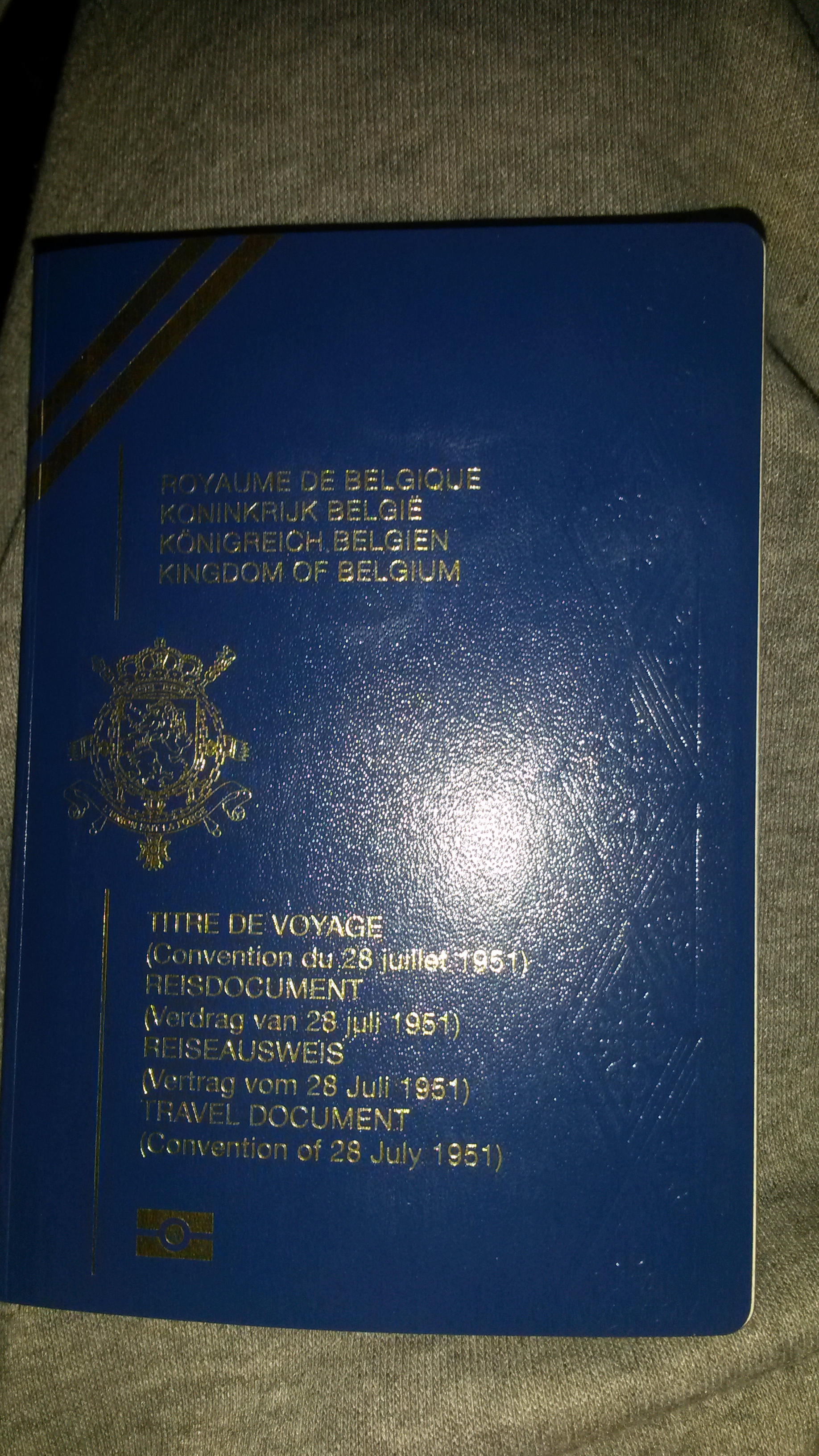 Refugee travel document in 4 languages